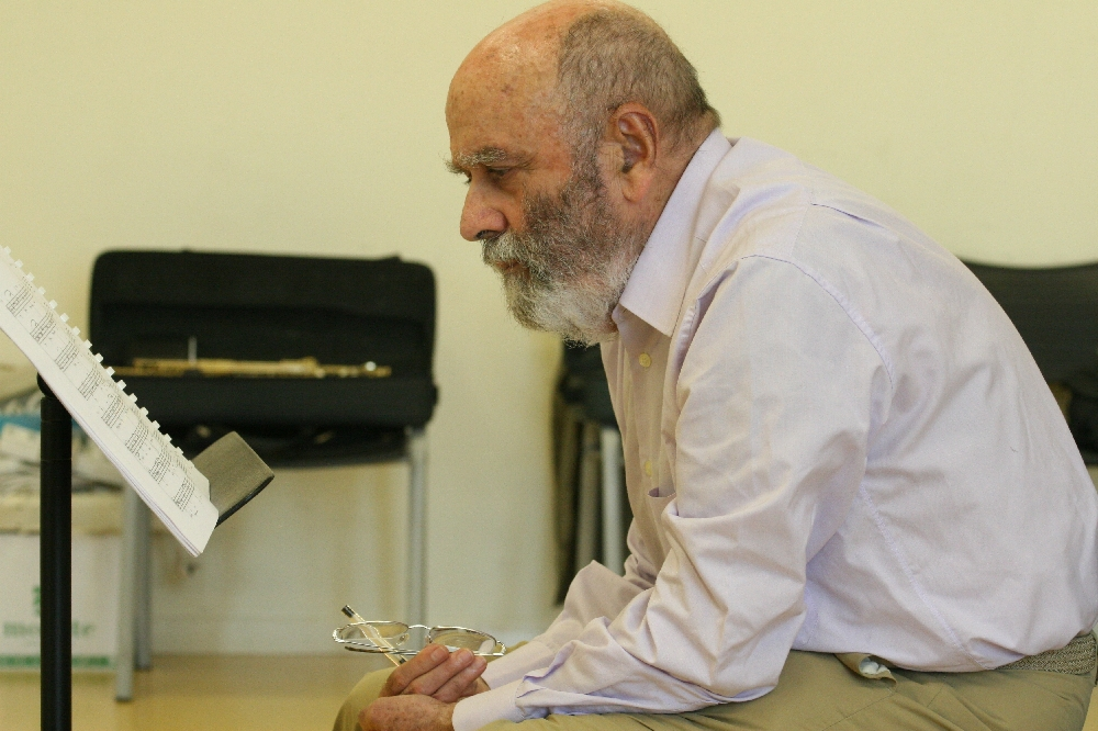 Spanish composer Luís de Pablo